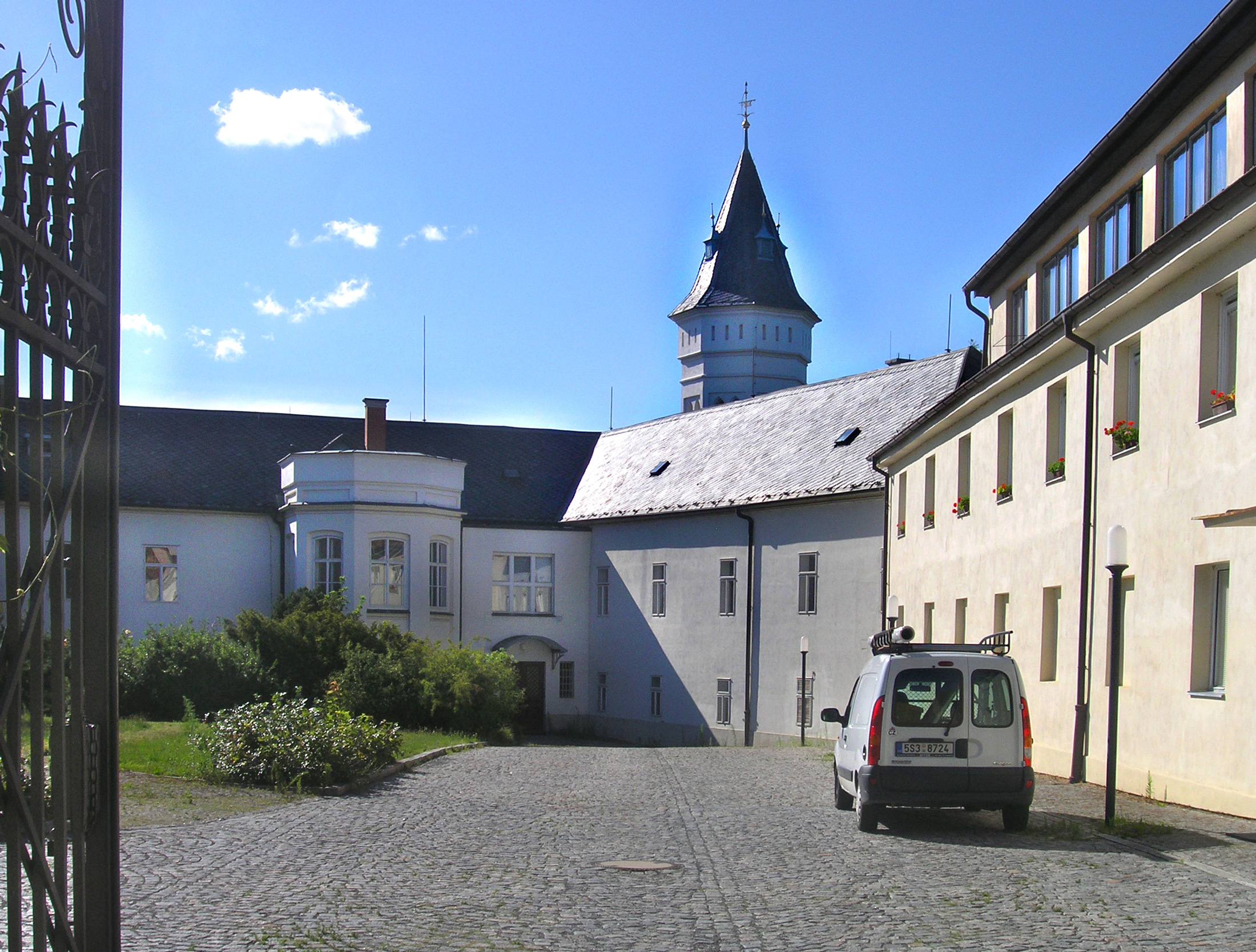 Courtyard of Komořany castle, Prague